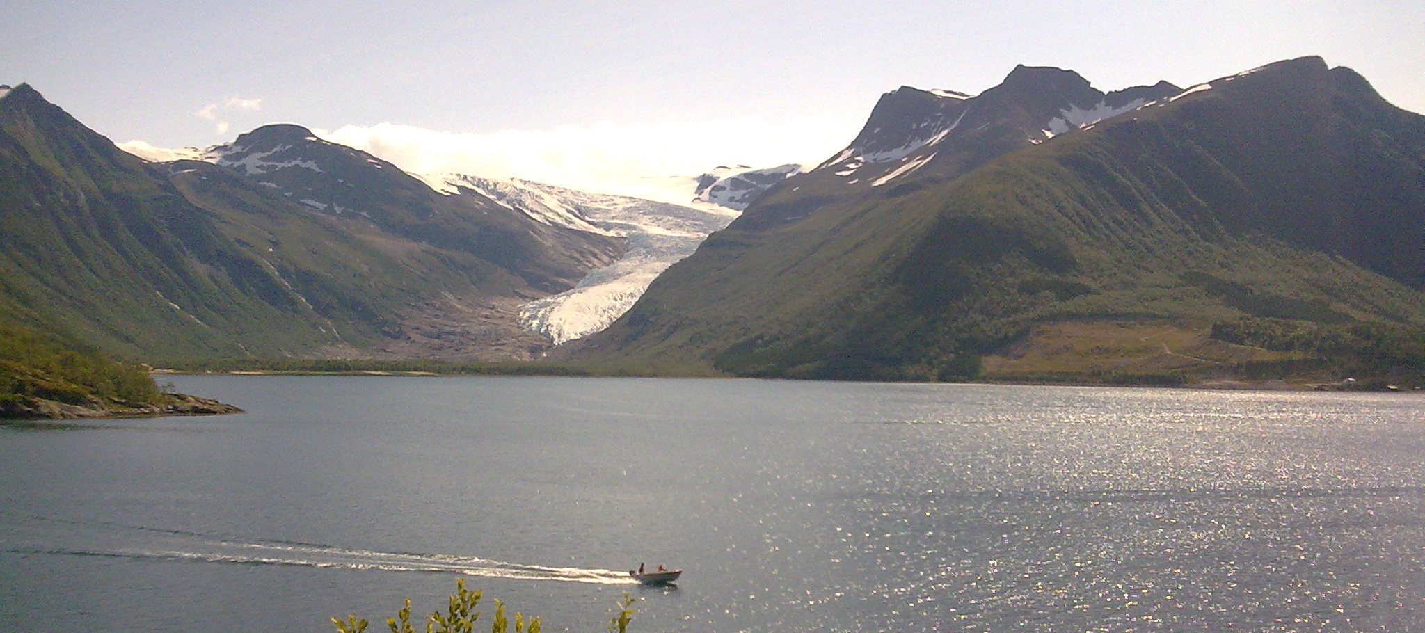 Svartisen glacier in Norway, reaching almost to the sea level.